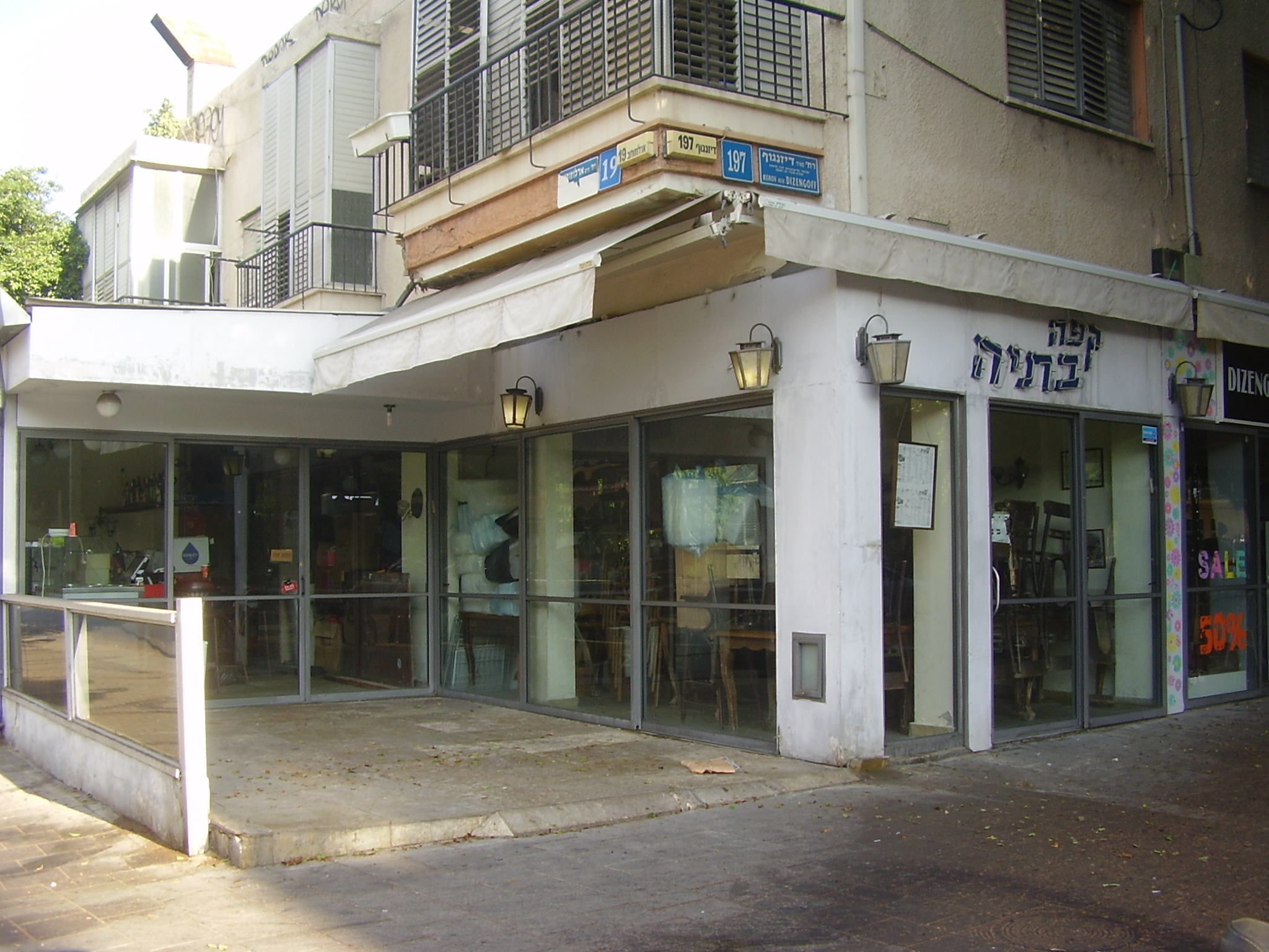 cafe batia in tel aviv קפה בתיה בתל אביב